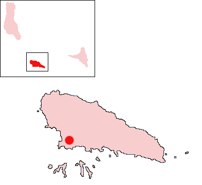 Ndrondroni, Mohéli, Comoros Location Map; created with the GIMP. Made by User:Acntx.